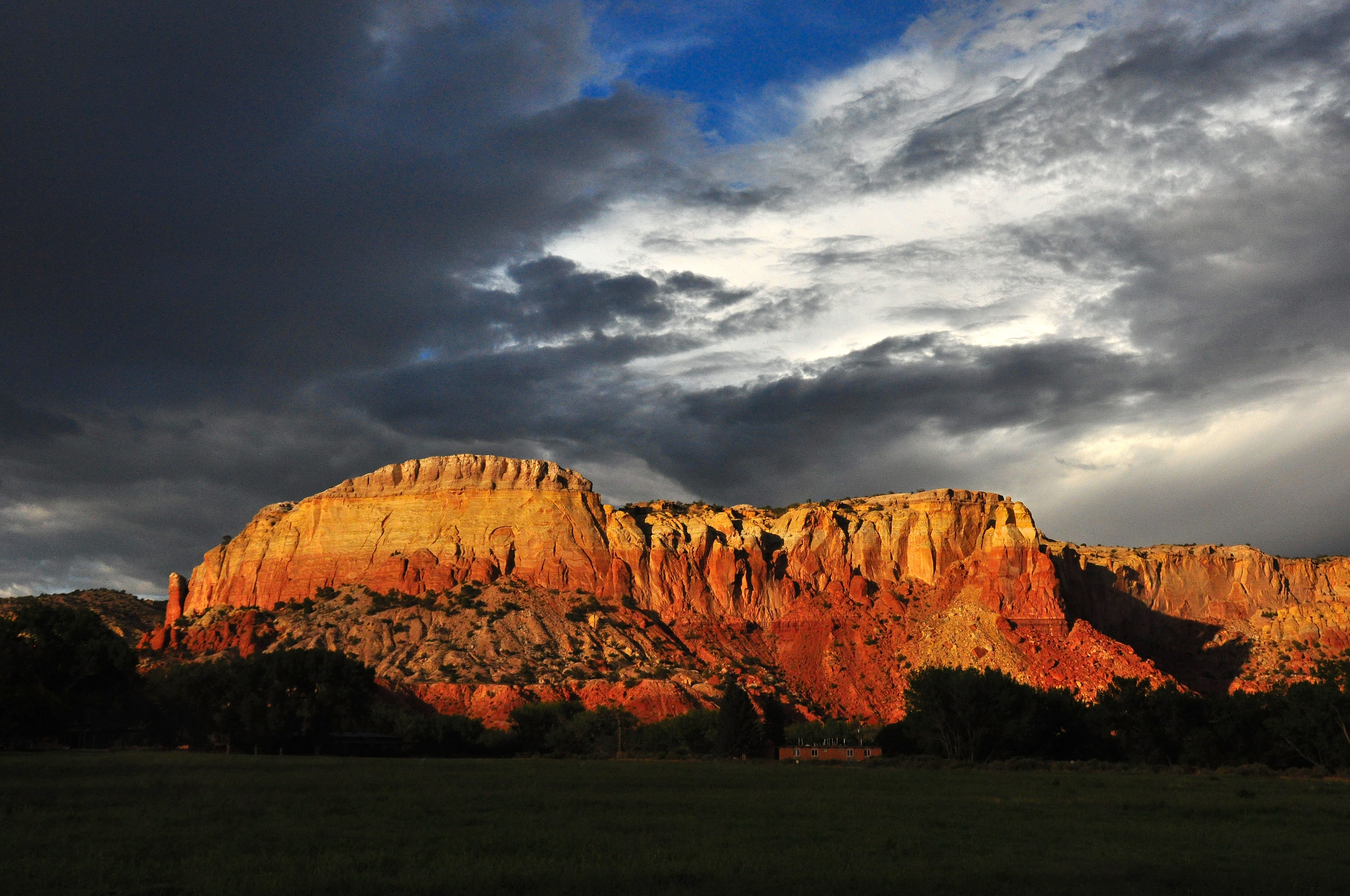 Ghost Ranch redrock cliffs, near Abiquiu, NM